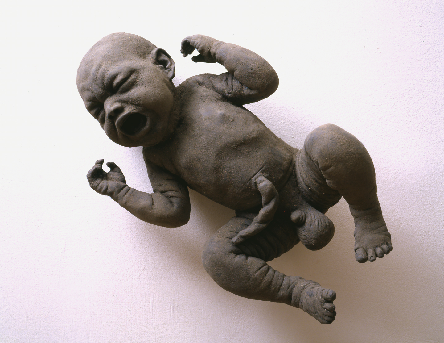 "Dirt Baby" is a dirt sculpture by James Croak, dated 2000.